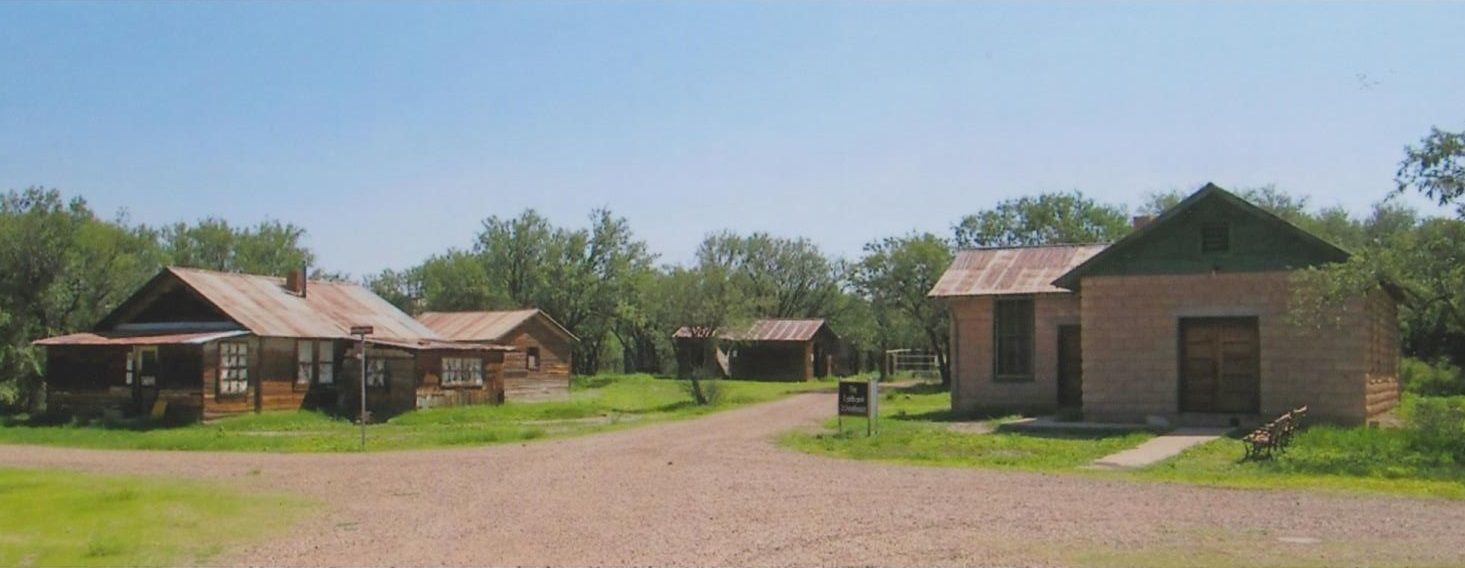 The ghost town of Fairbank, Arizona.